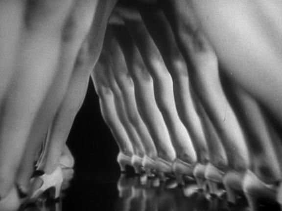 Frame from public domain trailer for 1933 Warner Bros. film 42nd Street shooting through dancers' legs on a turntable during production number